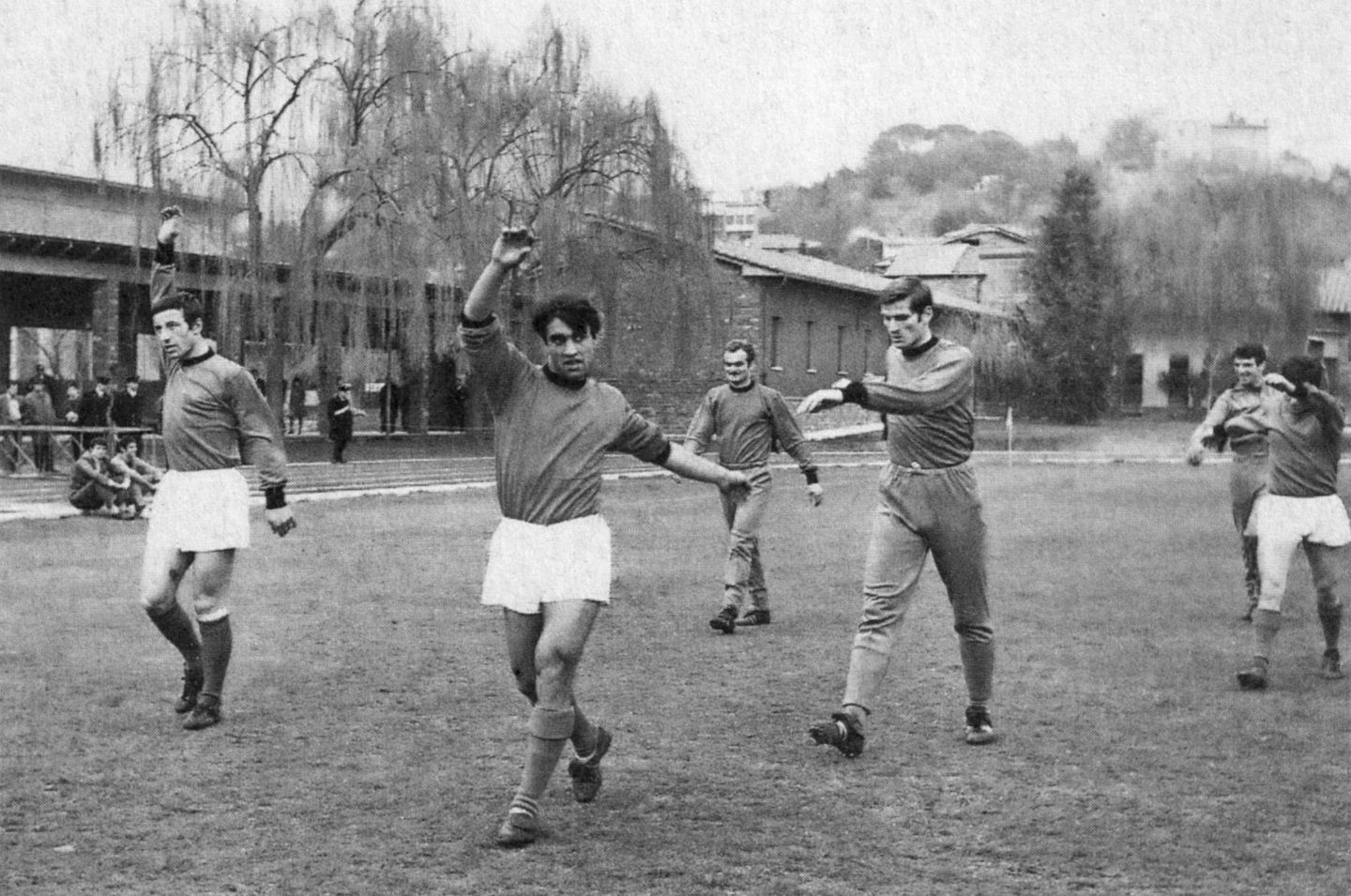 Florence (Italy), 1969. Some Italy national team's footballers in training at F.I.G.C. Technical Centre in Coverciano district; from left to right: Ernesto Castano, Pietro Anastasi, Sandro Mazzola, Giacinto Facchetti and Dino Zoff.